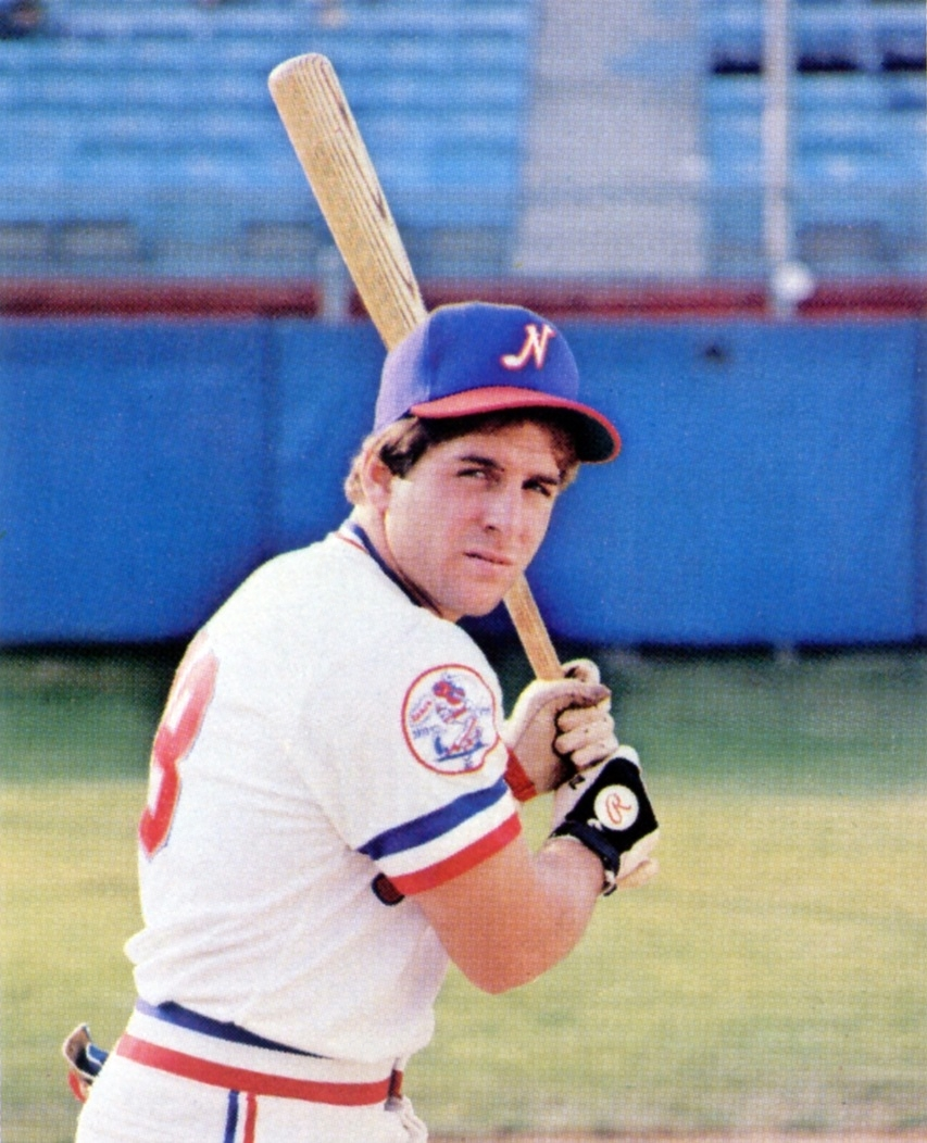 Catcher Brad Gulden of the 1980 Nashville Sounds Minor League Baseball team of the Southern League